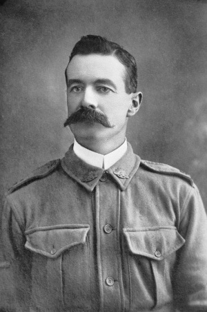 Studio portrait of Percy Black, DSO DCM